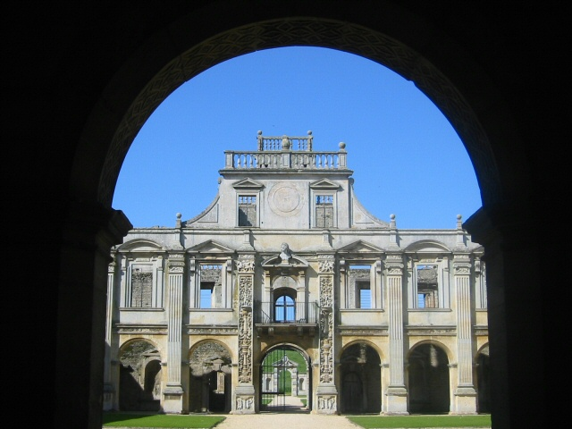 The Courtyard at Kirby Hall